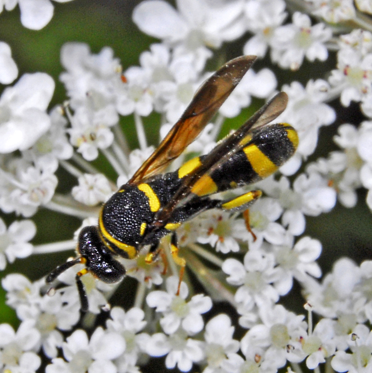 Leucospis cf. dorsigera, Female. Val Veny, Aosta, Italy